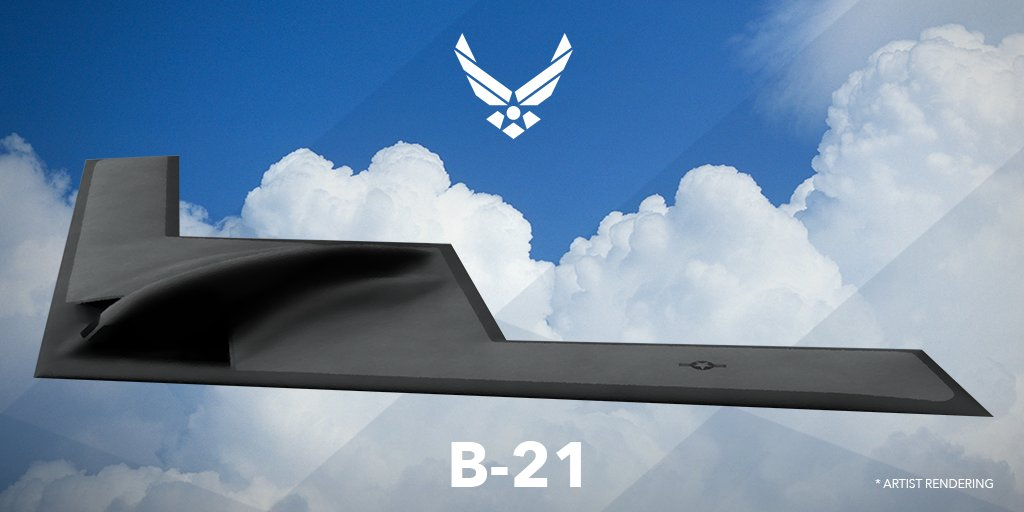 Official U.S. Air Force Artist Rendering of the Northrop Grumman B-21 Heavy Bomber.